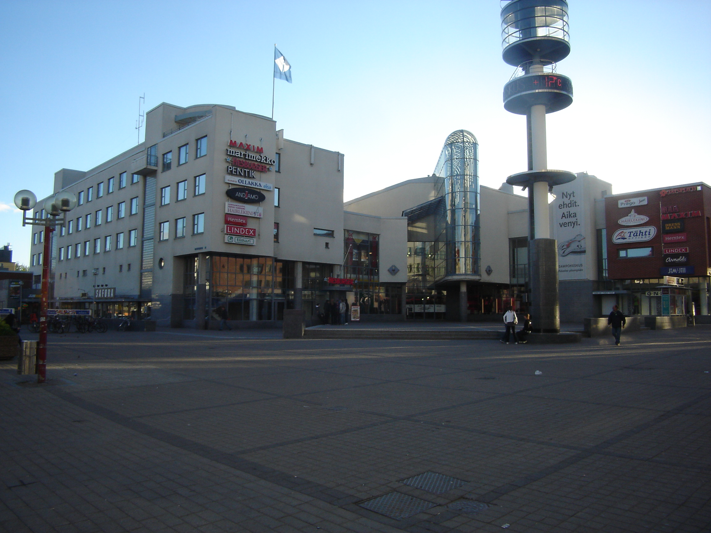 Lordi Square in central Rovaniemi, Finland